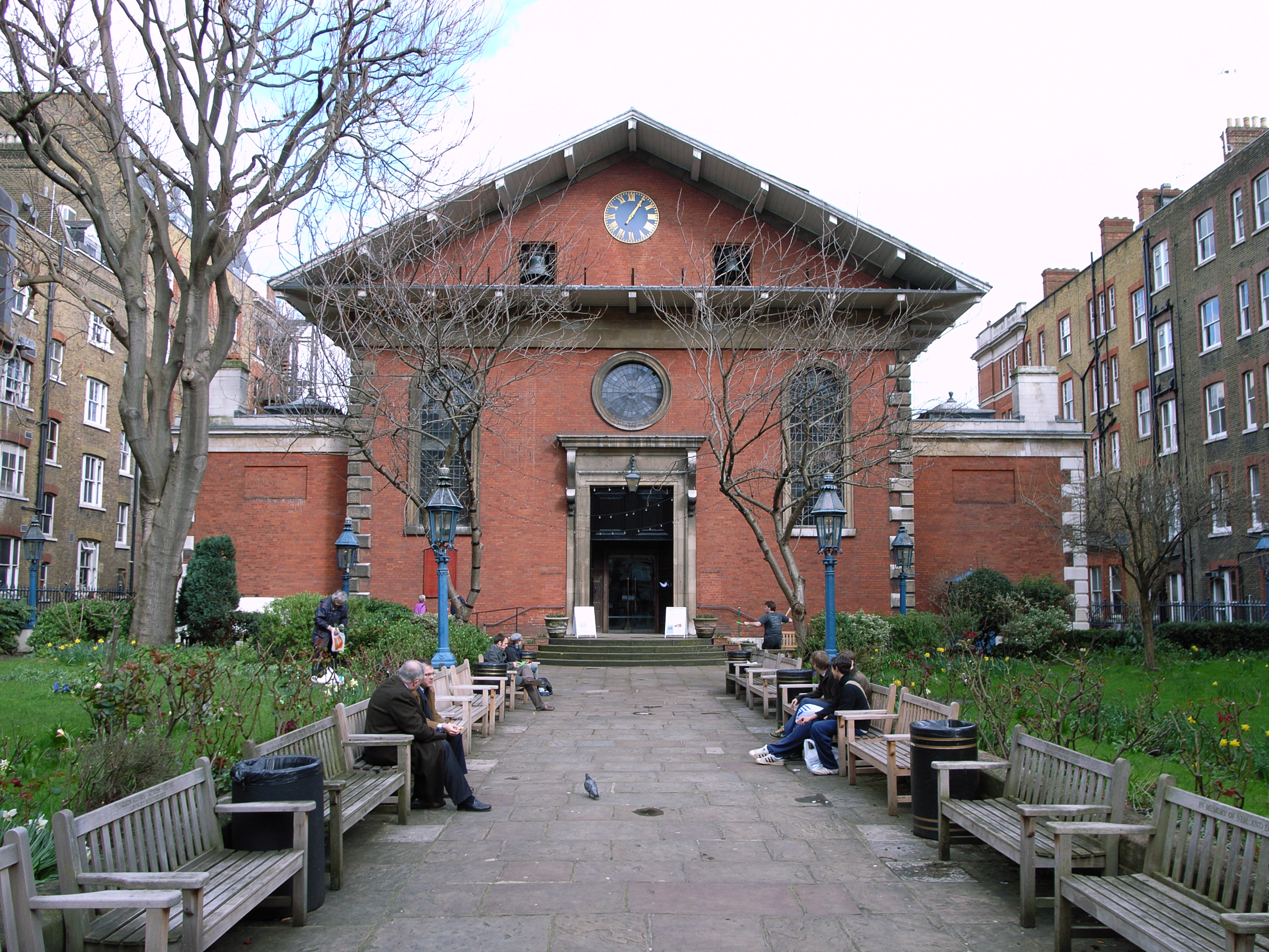 St Paul, Covent Garden (1631-8) by Inigo Jones, view from West. I believe that the church was originally finished in stucco rather than the brick that you see here.